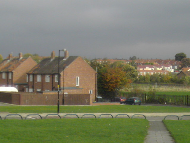 Montagu Estate. On the northernmost fringe of Nun's Moor Golf Course lies this less proserous housing estate